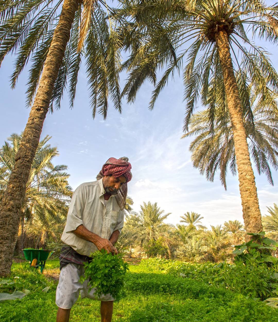 a Qatifi man collecting harvest